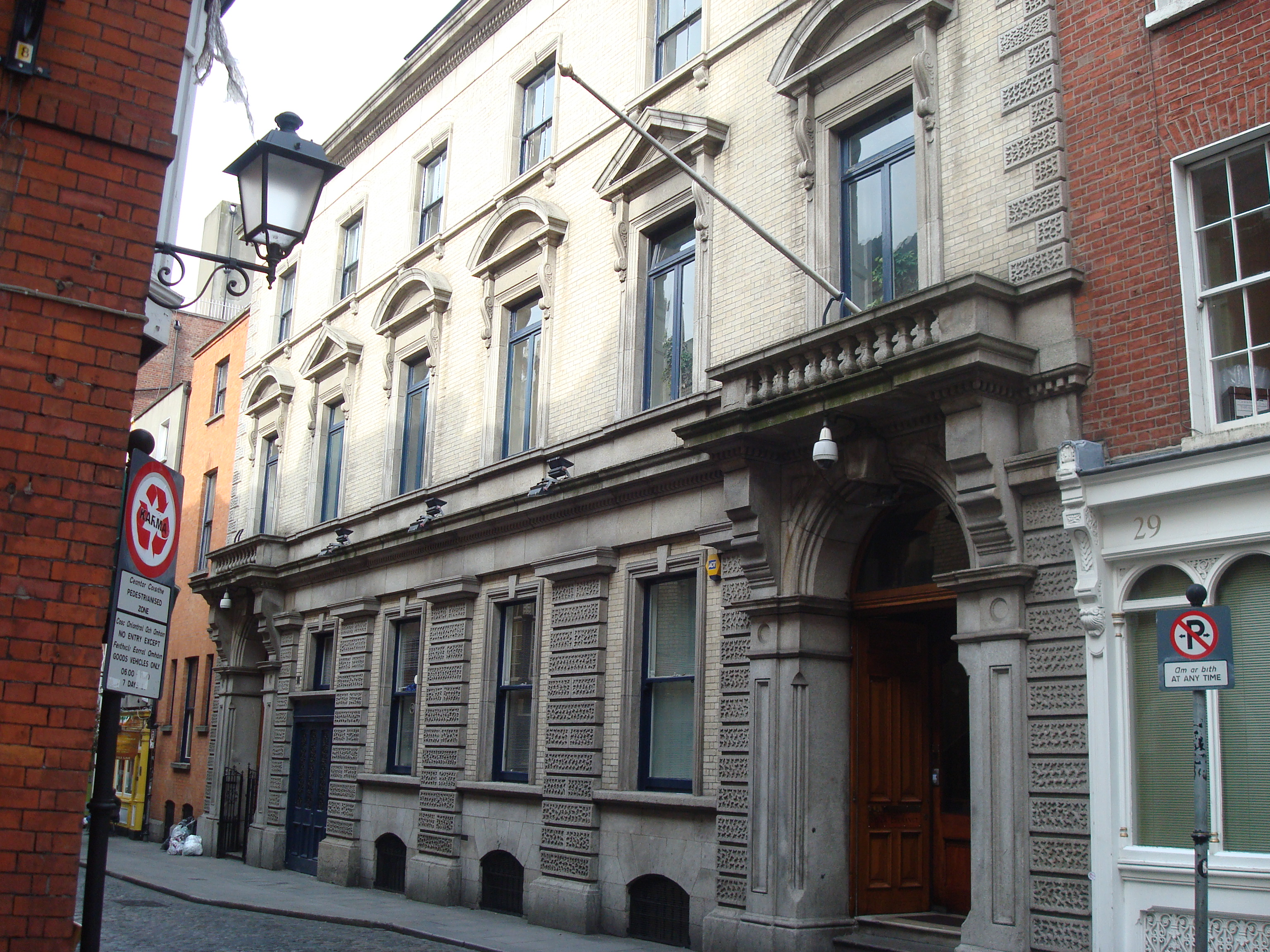 Irish Stock Exchange, Anglesea Street, Dublin, Ireland